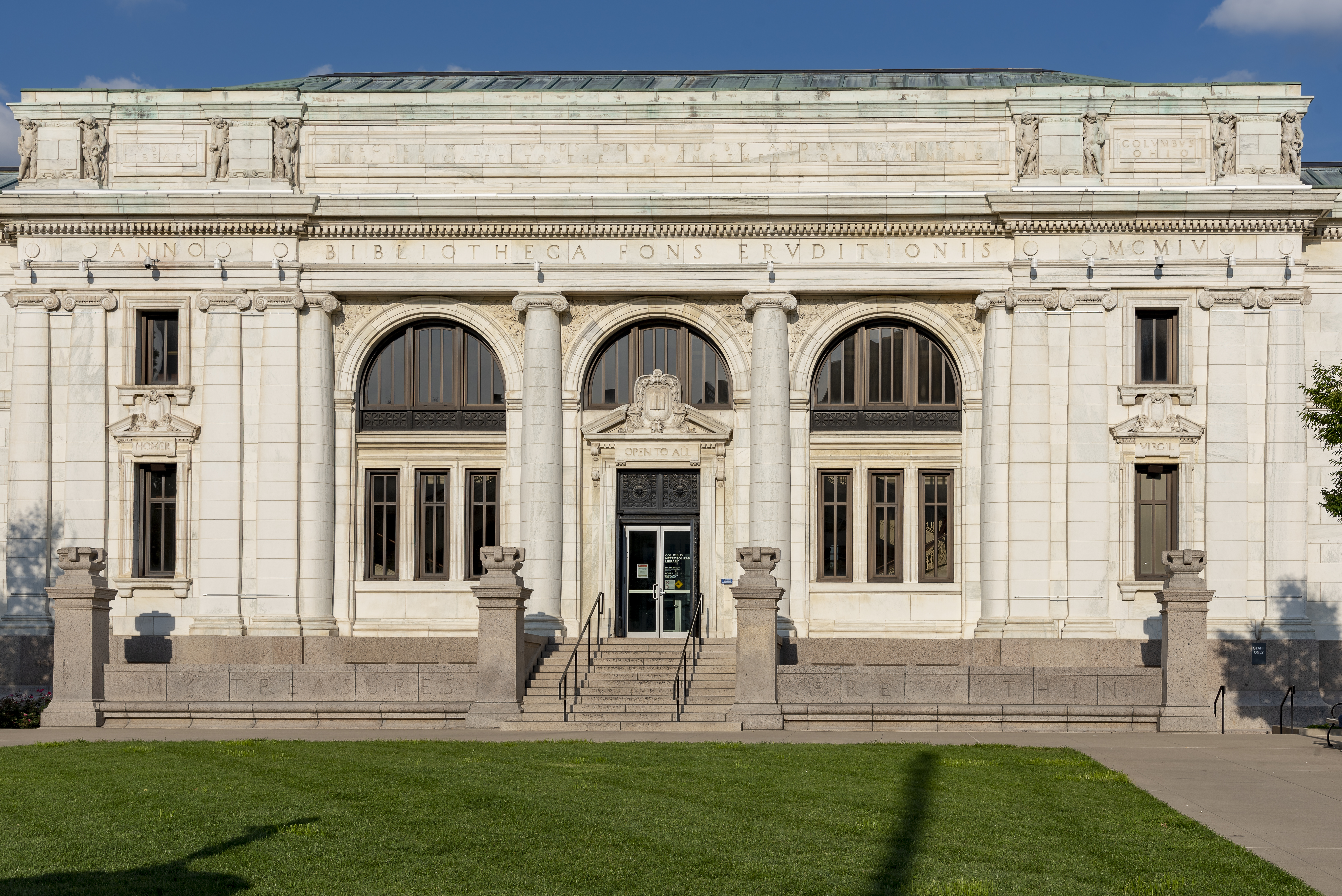 The Carnegie plaza entrance from Grant Avenue to the Columbus Metropolitan Library.